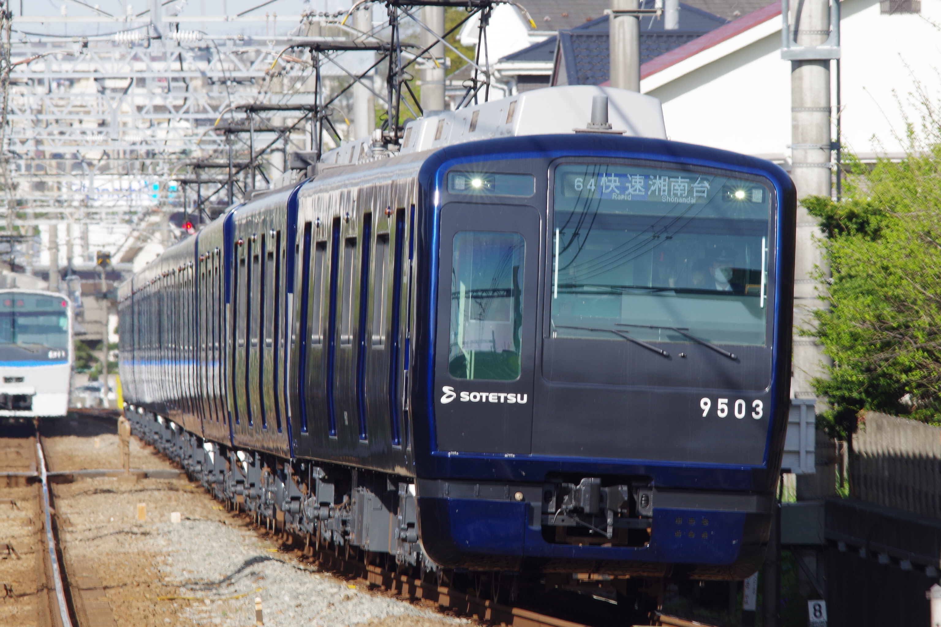 Refurbished Sotetsu 9000 series EMU set 9703